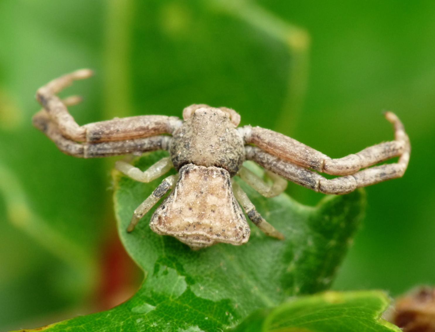 Pistius truncatus, near Livorno, Tuscany, Italy